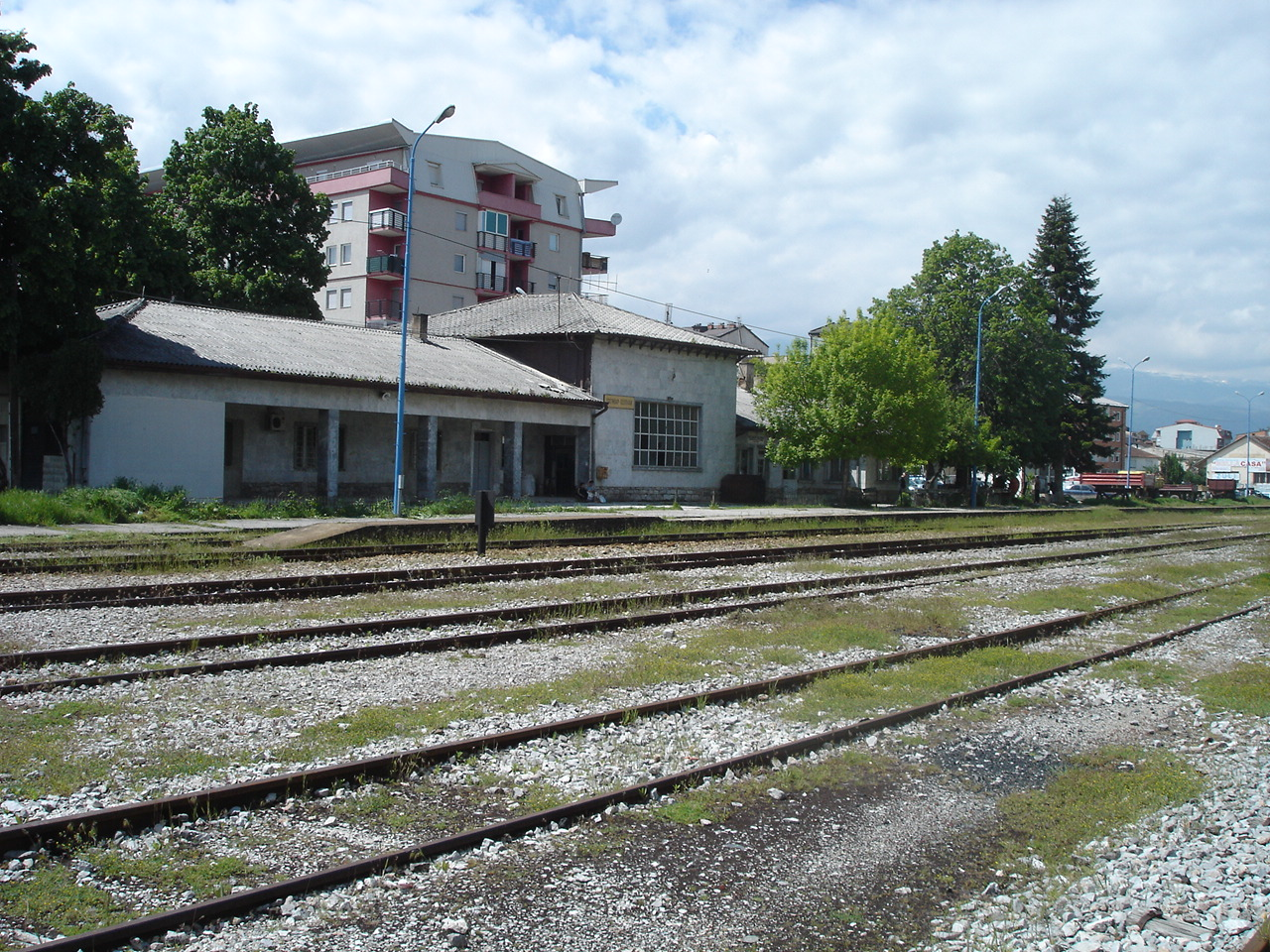 Railway station in Gostivar, Macedonia